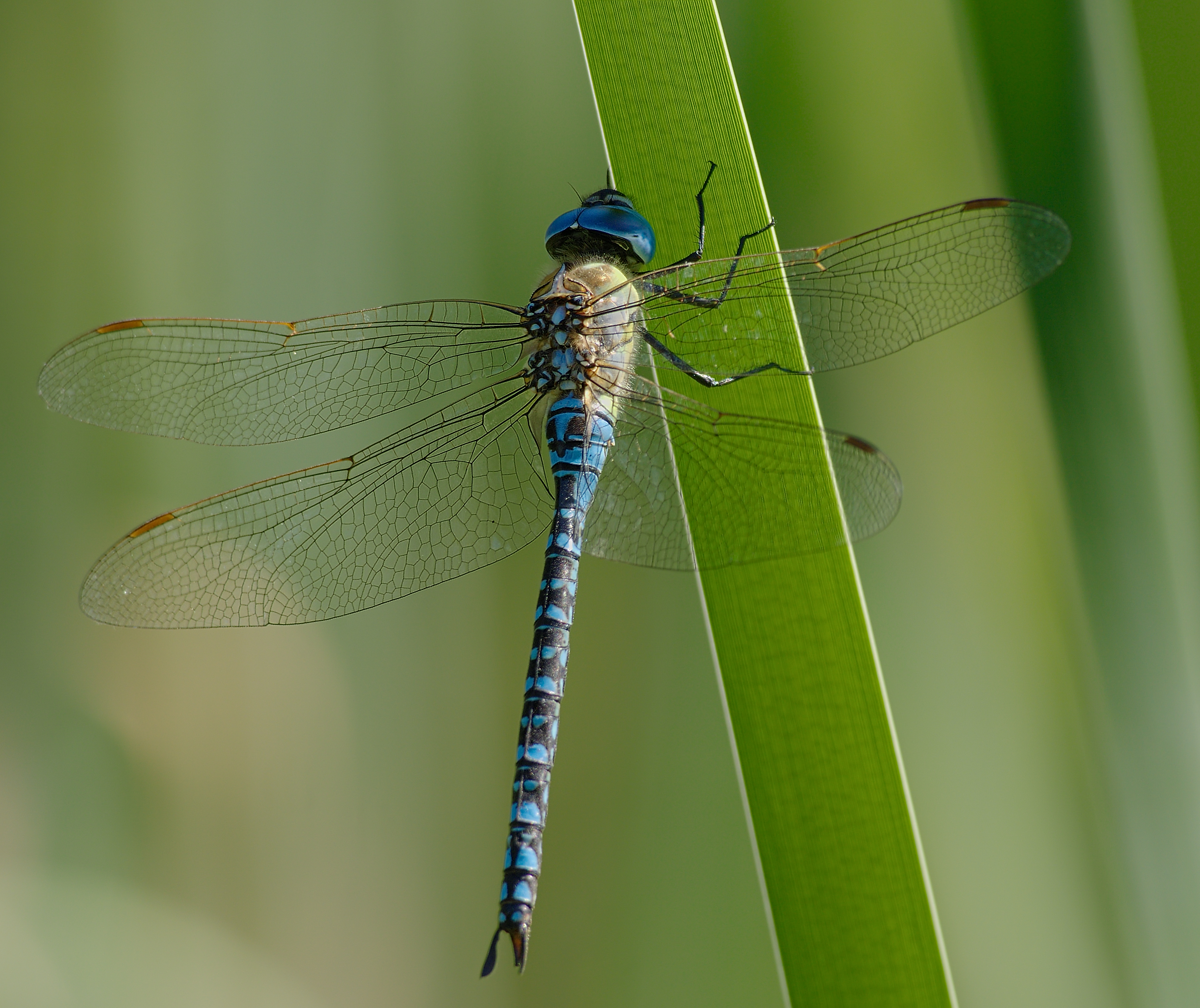 Southern migrant hawker - Aeshna affinis, male. Taken in Mannheim, Kirschgartshäuser Schläge by the Bruchgraben, Baden-Württemberg, Germany.